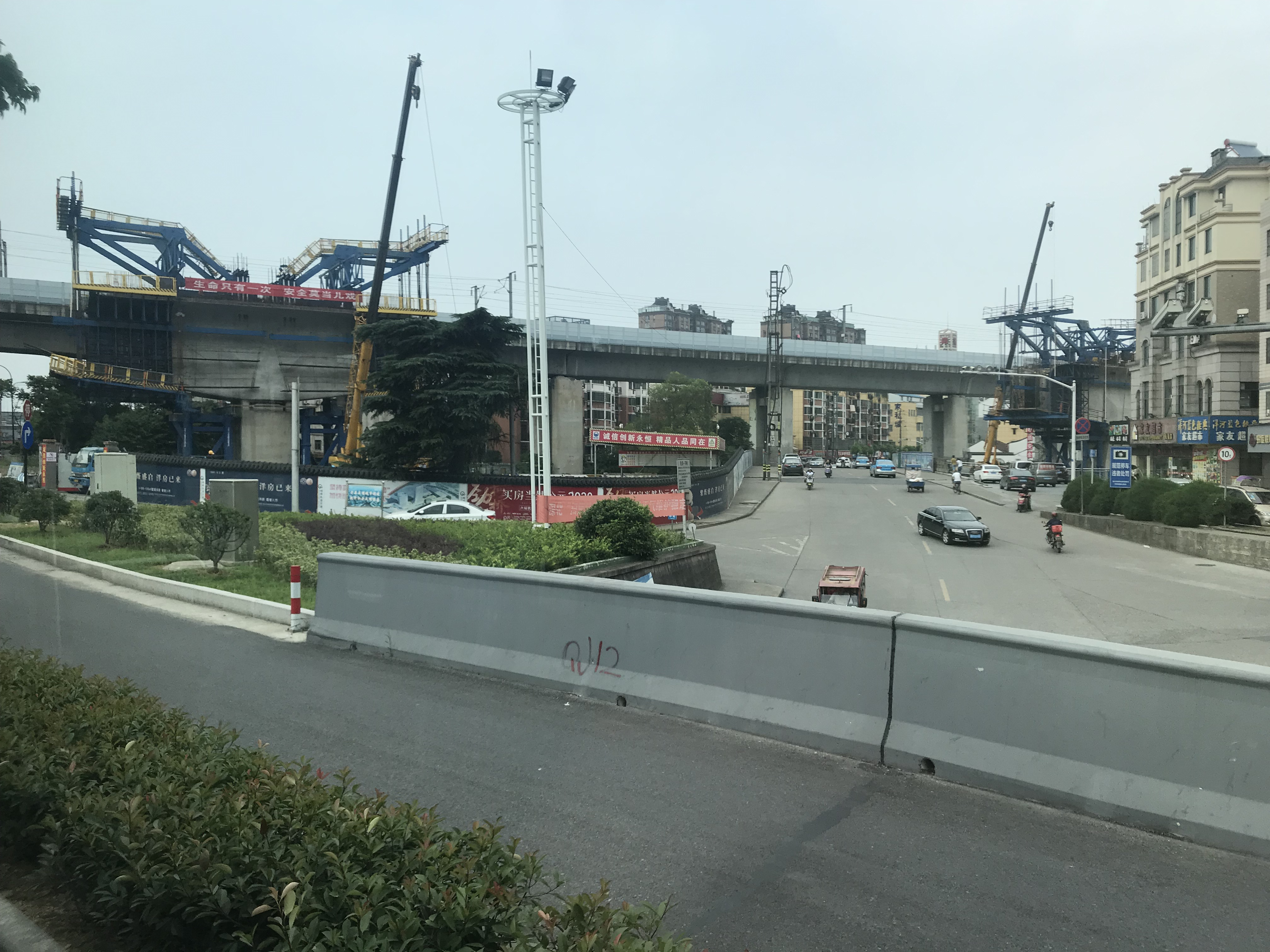 Alongside the Hangzhou-Shenzhen Railway